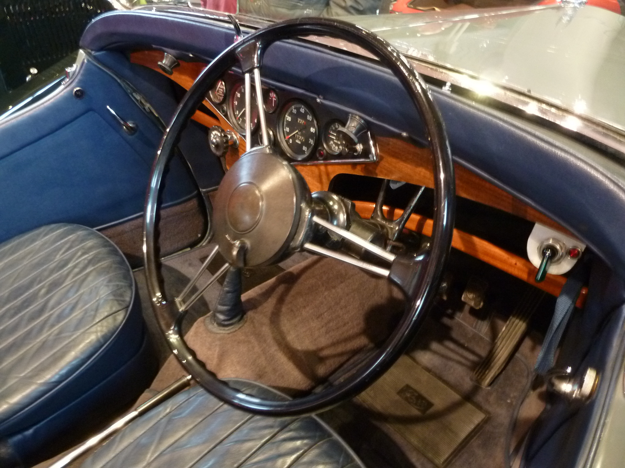 1947 Rover 12hp tourer (DVLA) 1495cc